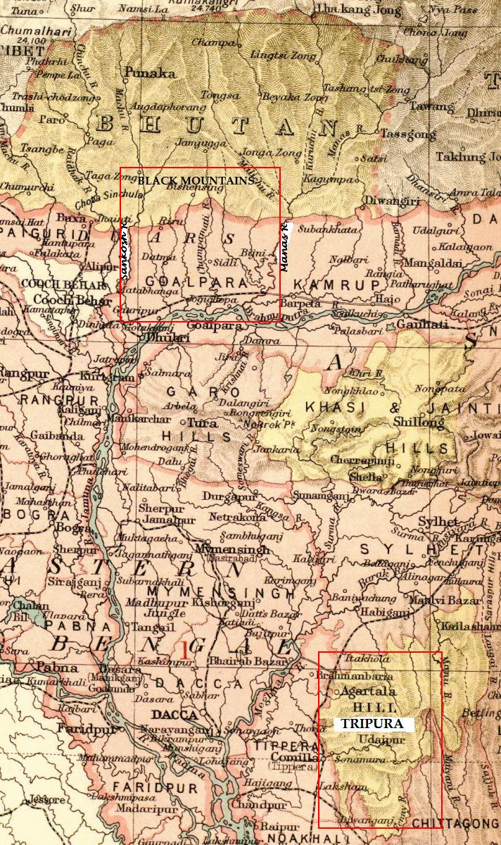 Scanned, cropped, annotated, and reduced by Fowler&fowler«Talk» 11:59, 25 October 2007 (UTC) from personal copy of the map of East Bengal, Assam and Bhutan, from the Imperial Gazetteer of India Atlas, 1907.